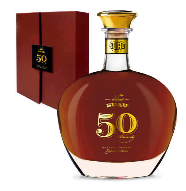 Brandy Suau aged 50 Years with box